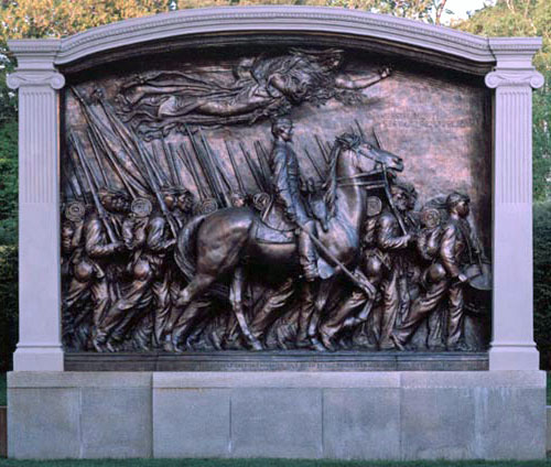 Photograph of Robert Gould Shaw Memorial, by Augustus Saint-Gaudens (1848 - 1907)